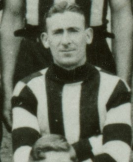 Photograph of Reynolds Webb in 1922